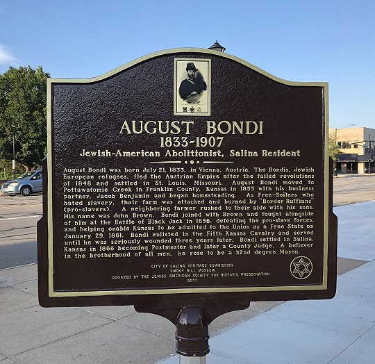 August Bondi historical marker - Salina, Ks. donated by the Jewish American Society for Historic Preservation